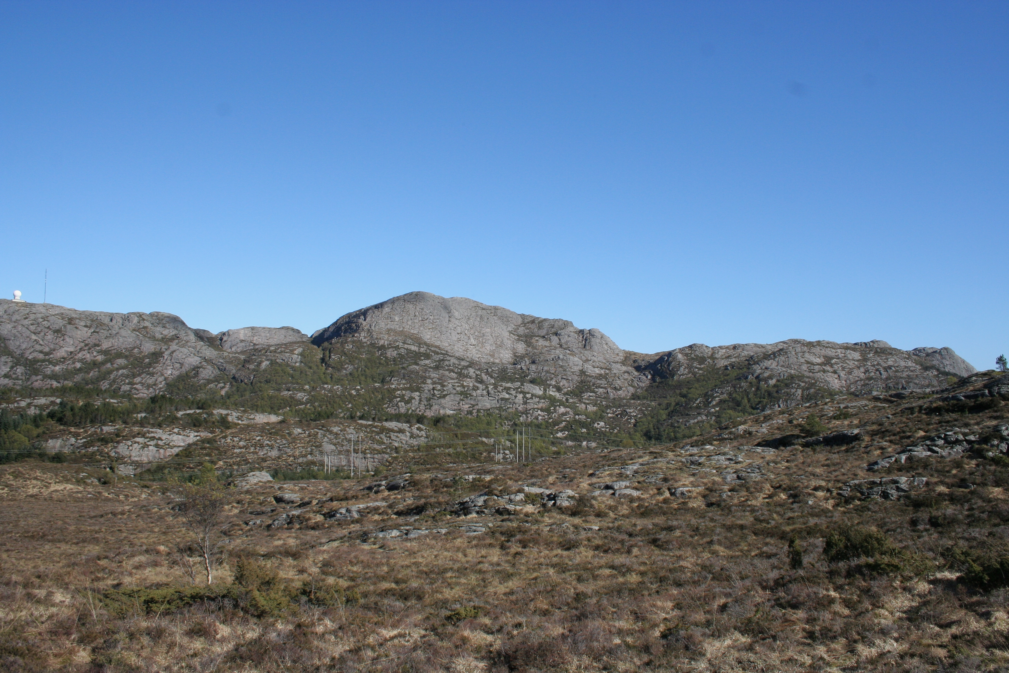 Liatårnet, the highest peak at the island of Sotra, in Hordaland, Norway. The mountain is 341 msl. This picture is taken from the west, looking east towards the mountain.